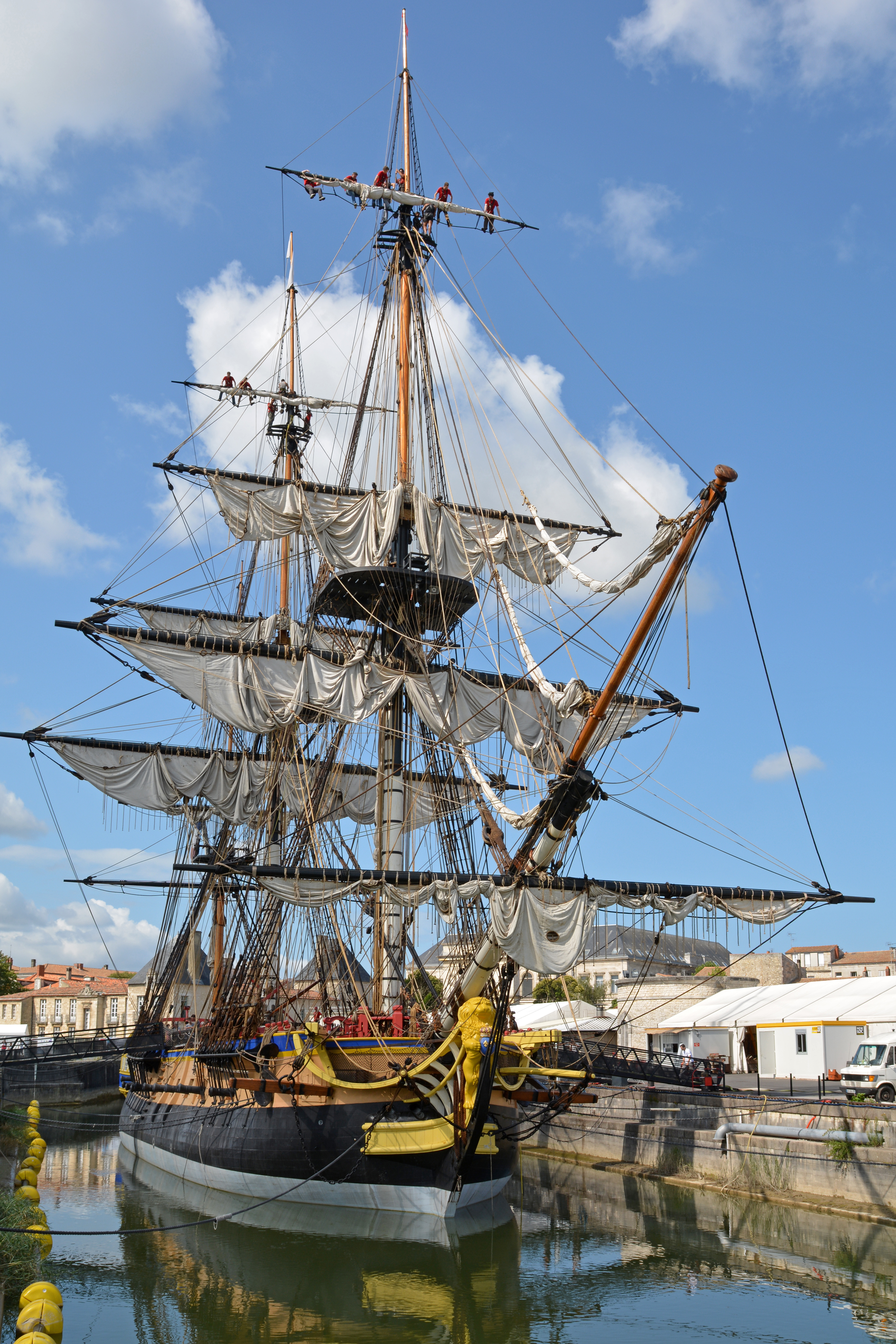 French frigate Hermione reproduction of the 1779 Hermione which achieved fame by ferrying General Lafayette to the United States in 1780. Near completion in one of the two dry docks beside the Corderie Royale at Rochefort